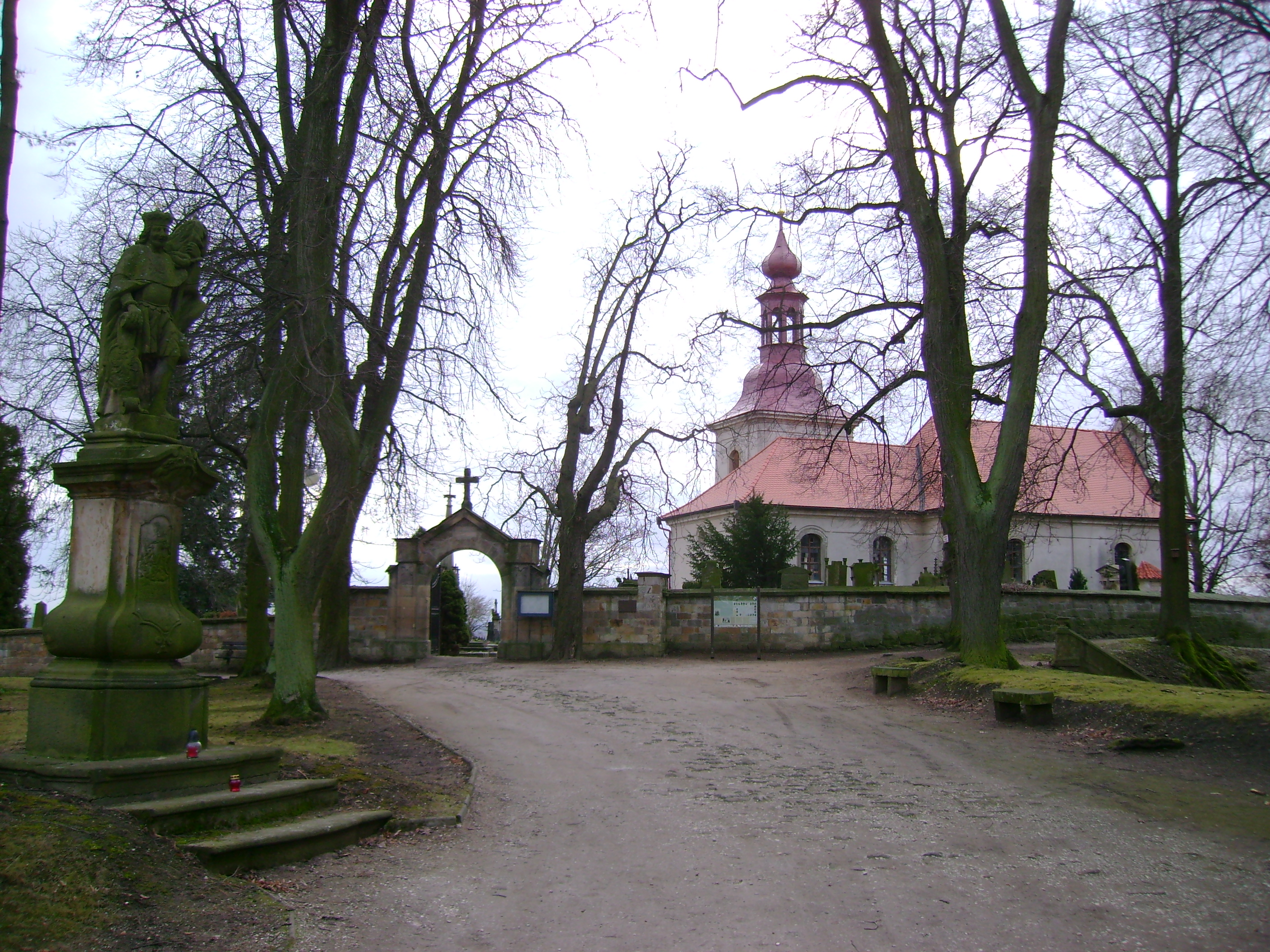 Church of Saint Gotthard (Godehard) on the Gothard Hill near Hořice, Jičín District, the Czech Republic. Česky: Kostel svatého Gotharda na vrchu Gothard v Hořicích, okres Jičín. – Pohled na kostel od severu, brána a zeď starého hřbitova, v popředí vlevo socha svatého Václava.